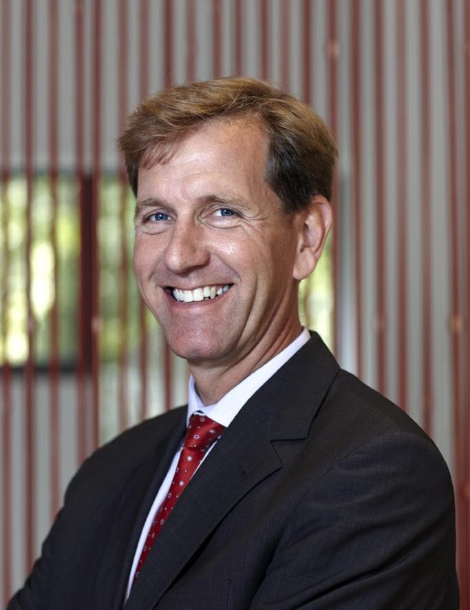 Wiebe Draijer, chair of the dutch Social Economic Council (SER), 2012